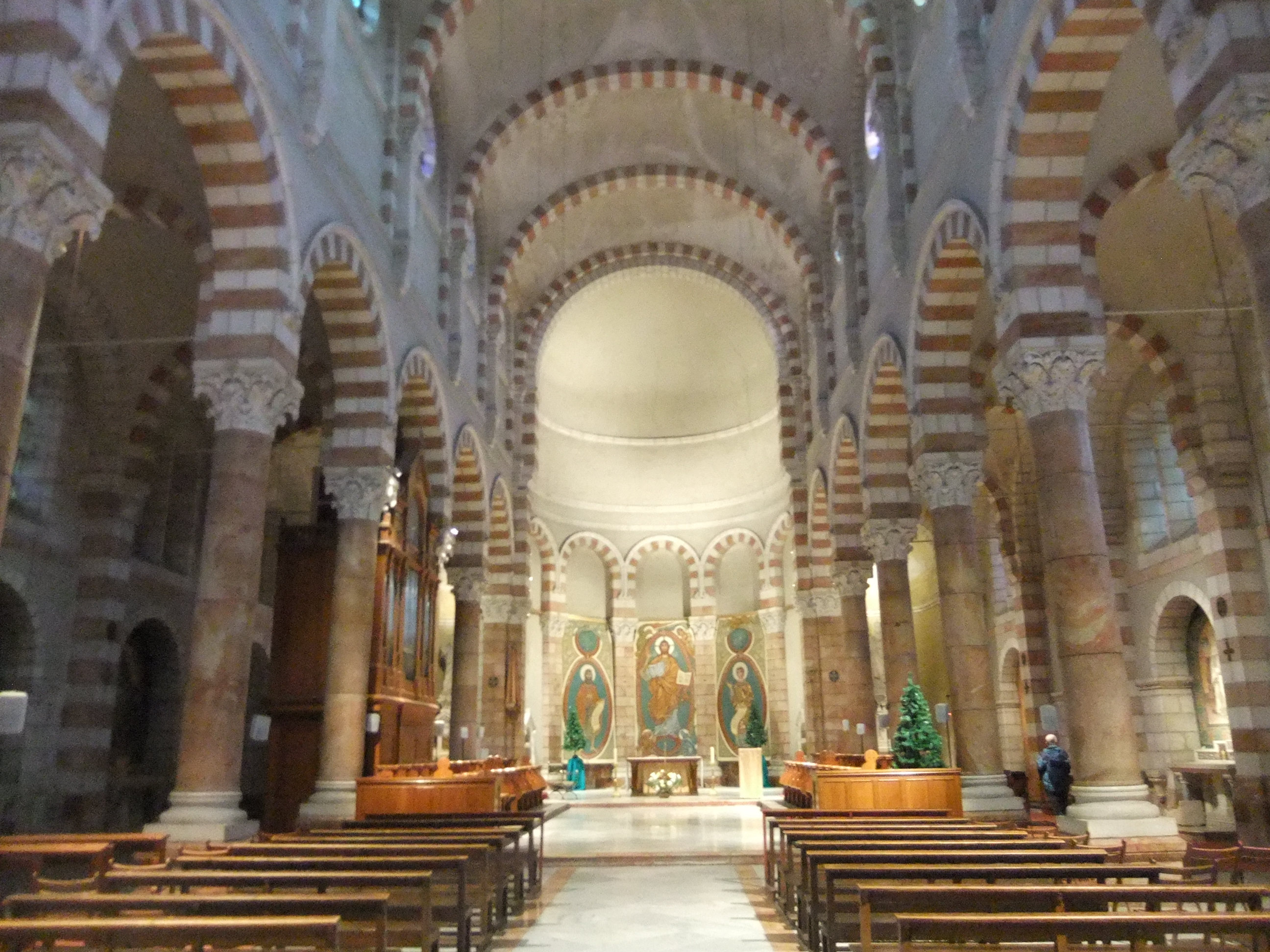 St. Stephen's church at École Biblique in Jeruslalem near the Damascene Gate - run by the Dominican Fathers